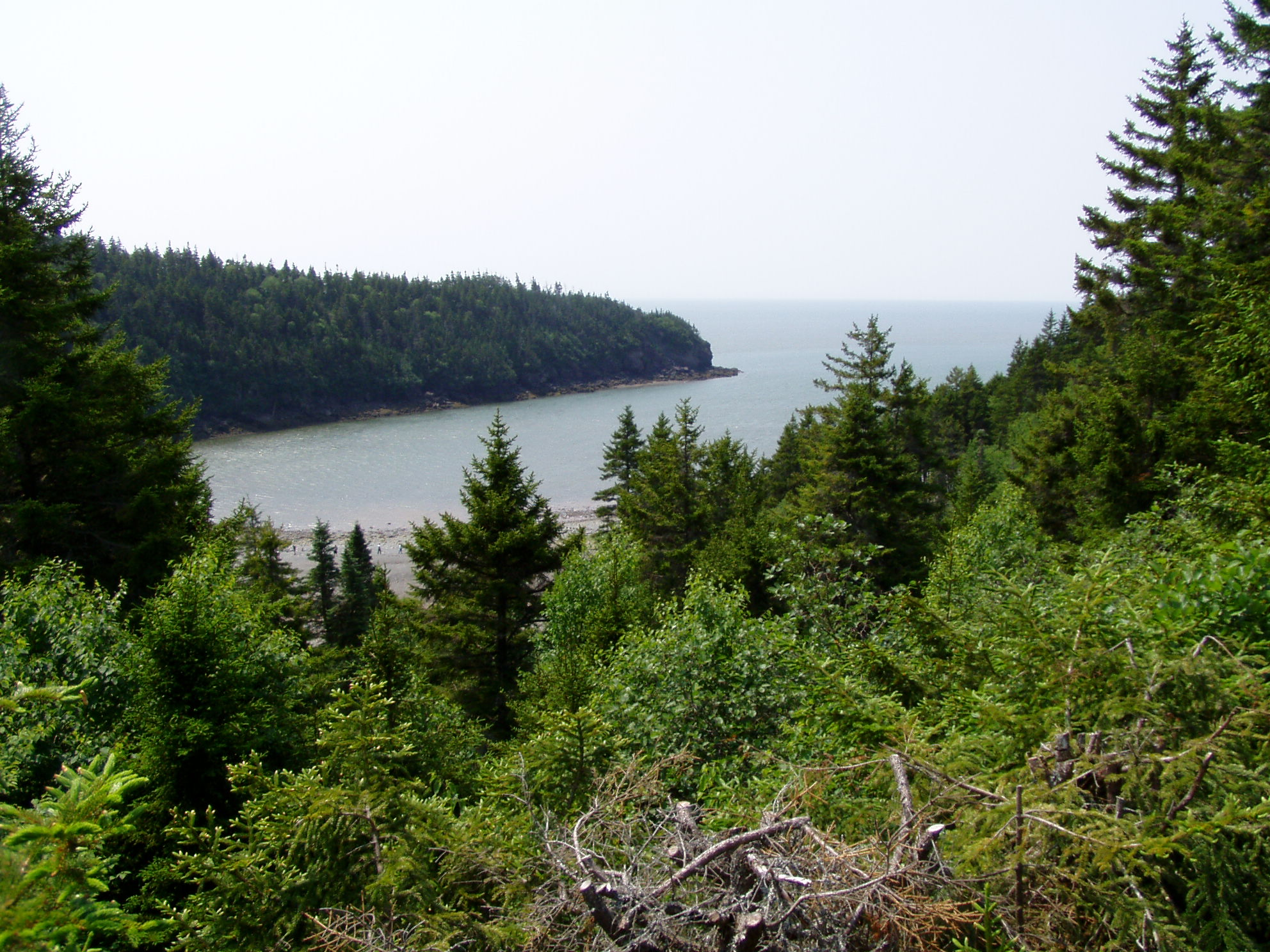 Point Wolfe. Fundy National Park of Canada, New Brunswick. Photo taken in July 2004 by myself, Danielle Langlois.